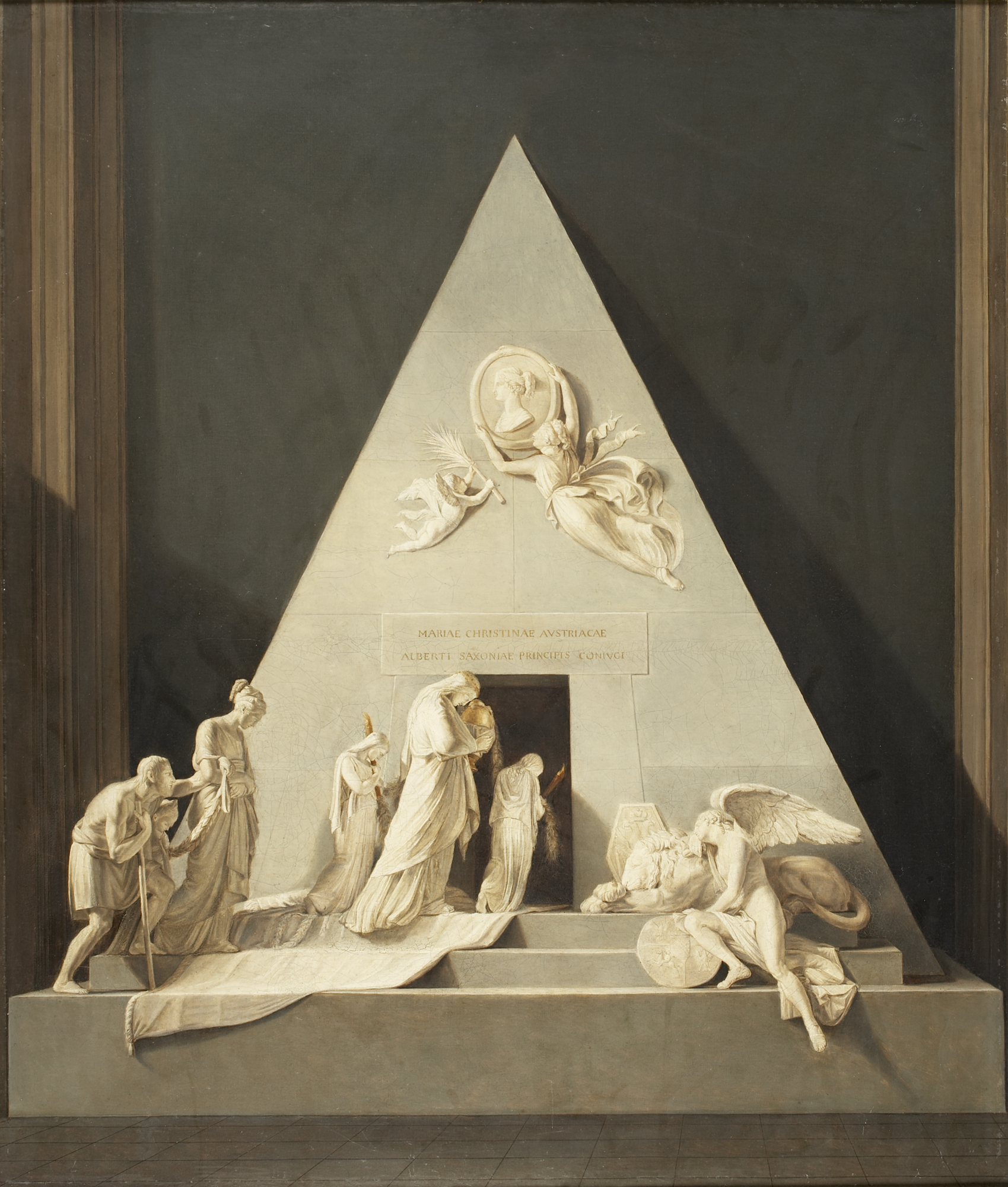 Catalogue Entry: This painting was submitted to the Paris Salon of 1833 by the little-known painter Charles Swagers. The cenotaph depicted here stands in the Augustinian Church in Vienna; commissioned by Duke Albert of Sachsen-Teschen to commemorate his wife, who died in 1798, it was created by Antonio Canova (1757–1822), the foremost Neoclassical sculptor of the age. Like the monument Canova had designed earlier to honor Titian, in Venice, it was unprecedented for its synthesis of an ancient structure — based on the Pyramid of Cestius in Rome — and a modern interpretation of a figural tomb. The deceased appears only in a portrait medallion, and Christian imagery has been eliminated. The genius of death, the mourning lion, the figures representing the different ages of humankind: all suggest an eternity and a visual language that would have been as comprehensible to the ancients as they are to us. Gallery Label: This painting depicts the tomb that Albert of Saxe-Teschen commissioned from Canova for his wife, Maria Christina of Austria. The monument, in St. Augustine’s Church in Vienna, was completed in 1805. The painting differs from the monument in its inscription, which reads "MARIAE CHRISTINAE AVSTRIACAE/ ALBERTI SAXONIAE PRINCIPIS CONIVCI" (To Maria Christina of Austria/ Wife of Albert, Prince of Saxony) instead of the original "VXORI OPTIMAE /ALBERTVS" (To the Best Wife/Albert). This change reflects the different intentions of the sculptor and patron. Albert had envisioned the monument as a traditional homage to the deceased, but Canova created a new kind of monument, in which the theme of death itself was emphasized: a cortege of people of different ages and genders enters the doorway of the royal tomb, which becomes a gateway for all of humanity to the world beyond.